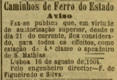 Notice of the Caminhos de Ferro do Estado - Sul e Sueste (State Railways - South and Southeastern division) about the promotion to a fourth class station of the São Matias halt, in the region of Alentejo, in Portugal. This image was published on the Diario Illustrado newspaper No. 11299, of 19th August 1904, and scanned by the Biblioteca Nacional de Portugal.